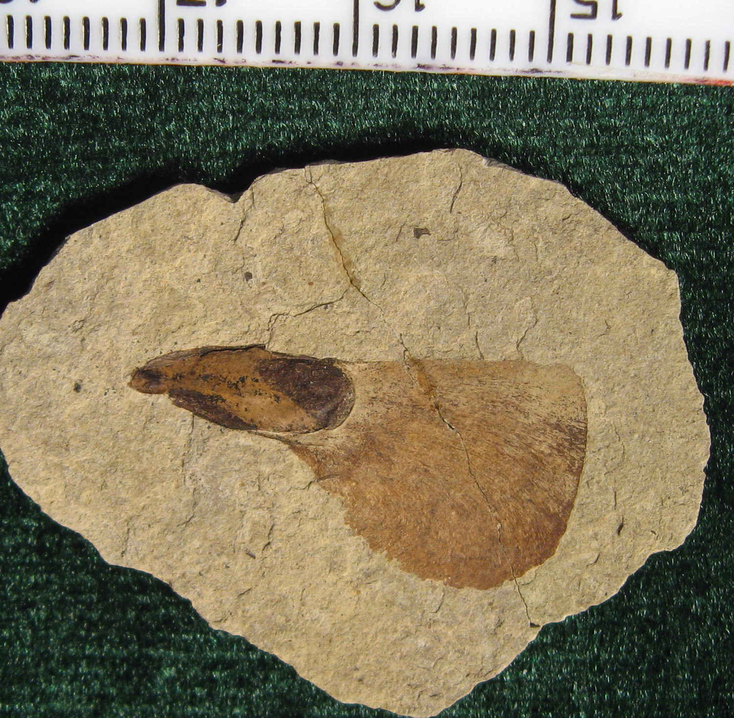 A 2.4cm long Abies milleri wing seed. Klondike Mountain Formation, Republic, Ferry County, Washington, USA, Eocene, Ypresian, 49 million years old. Stonerose Interpretive Center Collection #